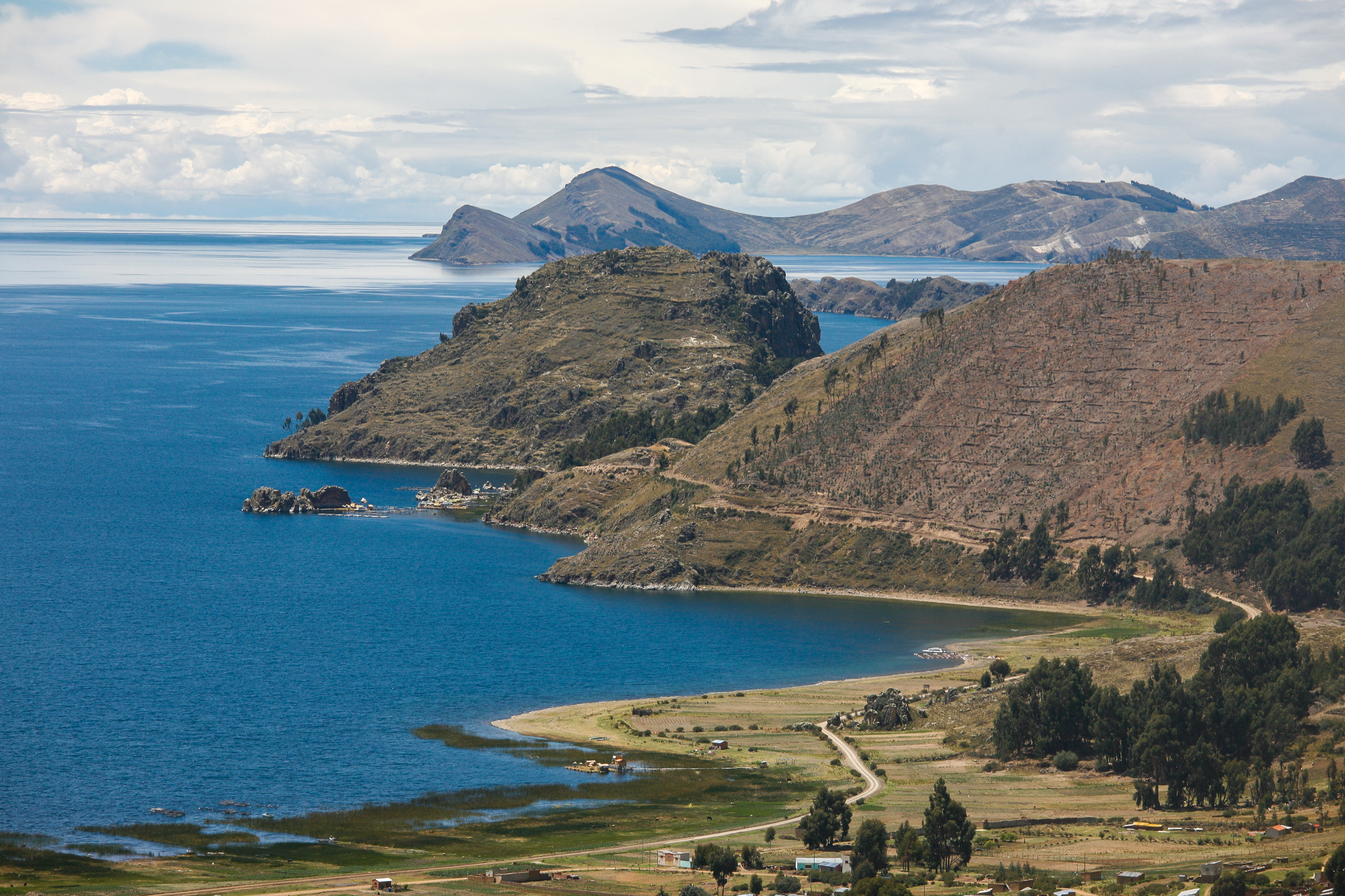 Lake Titicaca is a lake in the Andes on the border of Peru and Bolivia. By volume of water, it is the largest lake in South America